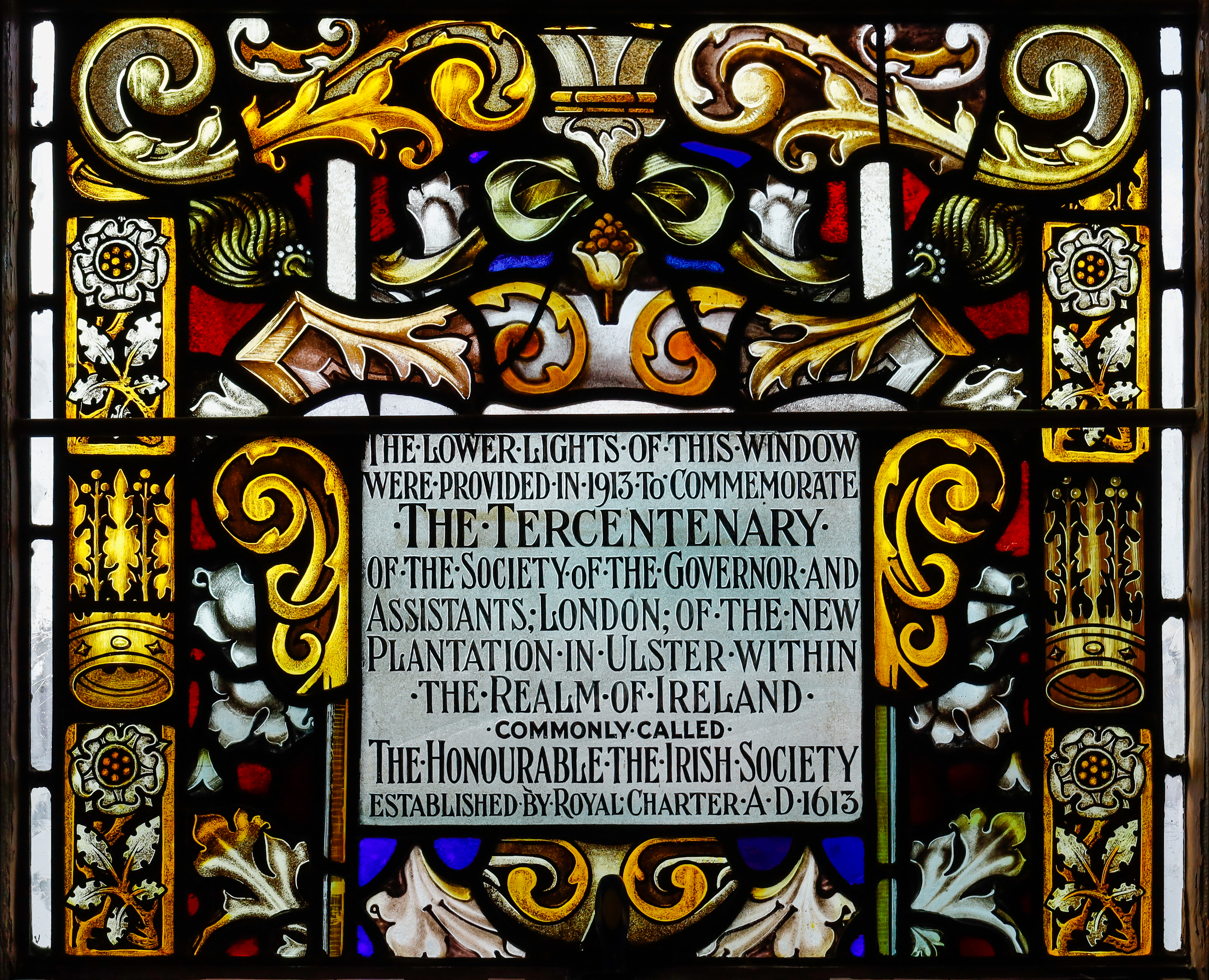 Centre lower panel of the stained glass in the bay window of the Main Hall. Inscription: The lower lights of this window were provided in 1913 to commemorate THE TERCENTENARY of the Society of the Governor and Assistants; London; of the New Plantation in Ulster within the Realm of Ireland commonly called The Honourable the Irish Society established by Royal Charter A.D. 1613.